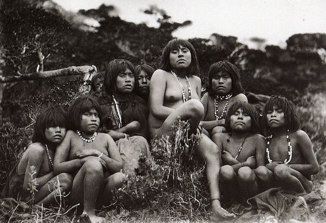 TIERRA DEL FUEGO. Yamana women